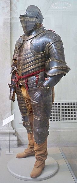 Henrry VIII jousting plate armour. Field armor of Henry VIII of England, Italian, Milan or Brescia, about 1544, at the Metropolitan Museum of Art